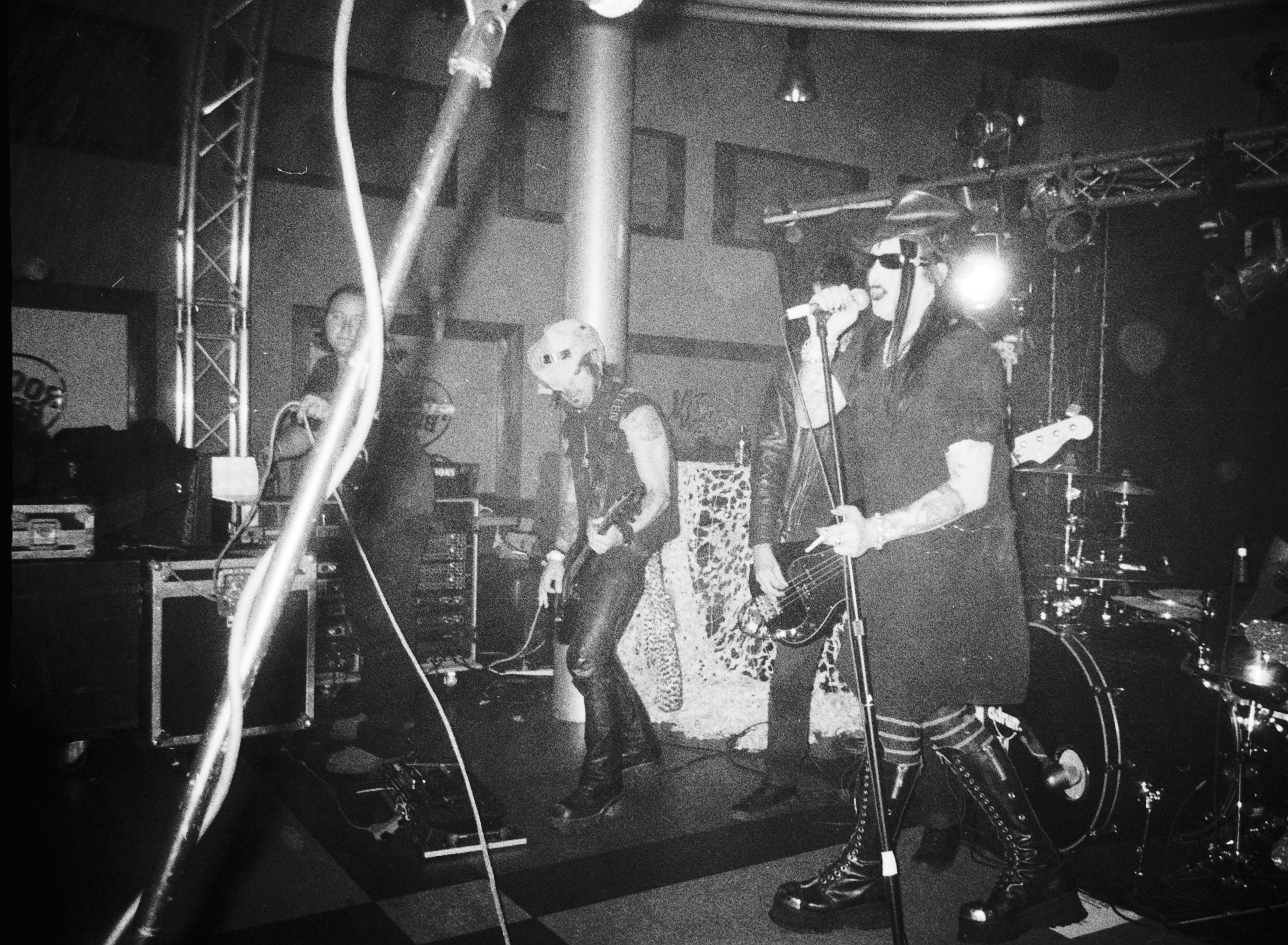 Taime Downe and Michael Thomas of Faster Pussycat. Photo by Ted van Pelt 2008